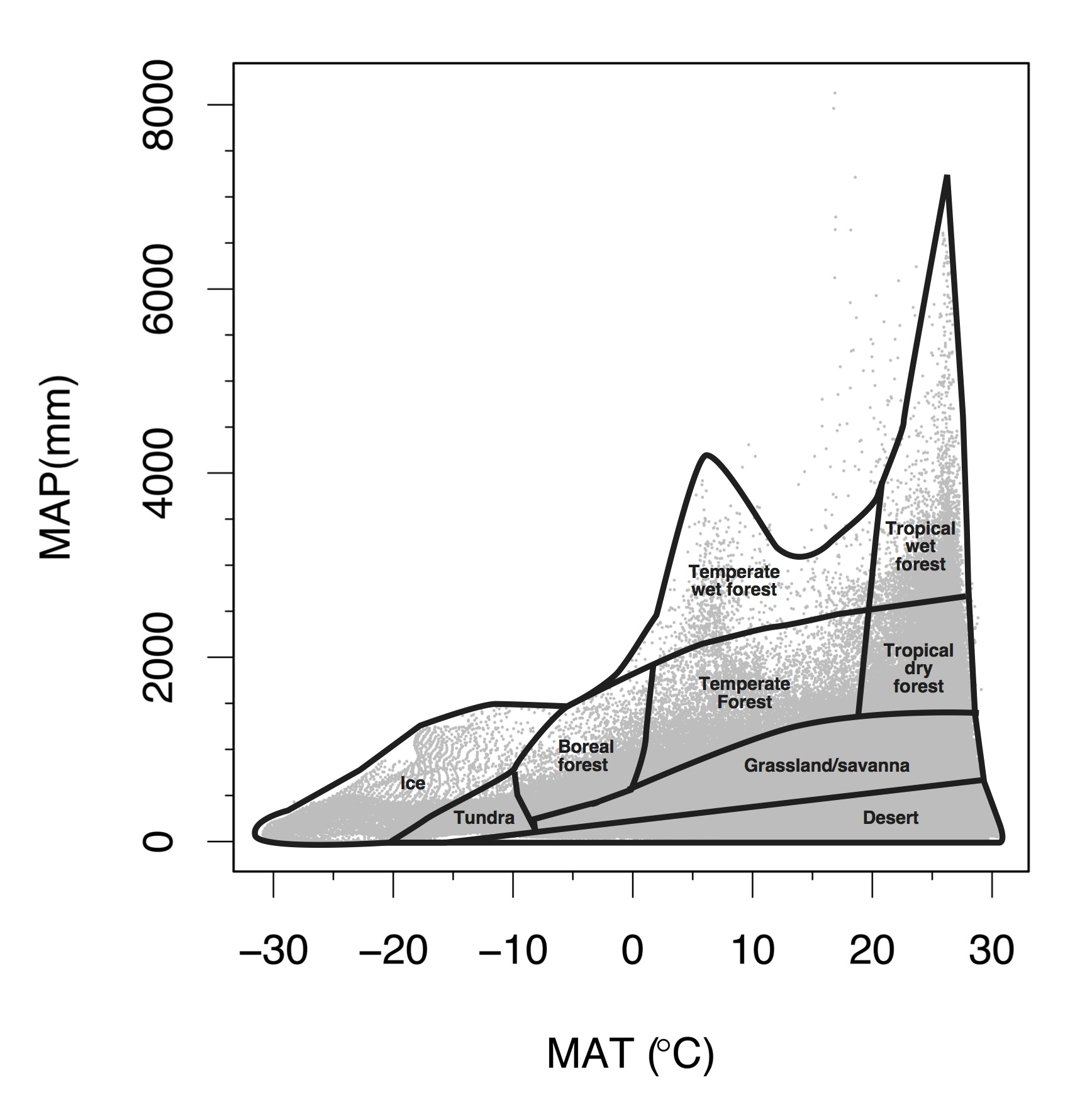 Modification of Whittaker biome figure to show global climate space.